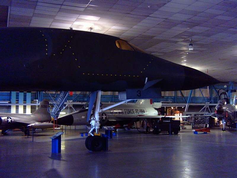 B-1A nose section with ejection capsule denoted by dotted outline. Aircraft is No.74-0160. Photo courtesy of Lance Barber, volunteer at Wings Over the Rockies Museum, Denver CO, Jan. 2007. Photo free for public use. Request the usual "Courtesy of" line for outside of WIkipedia use. Thank you.